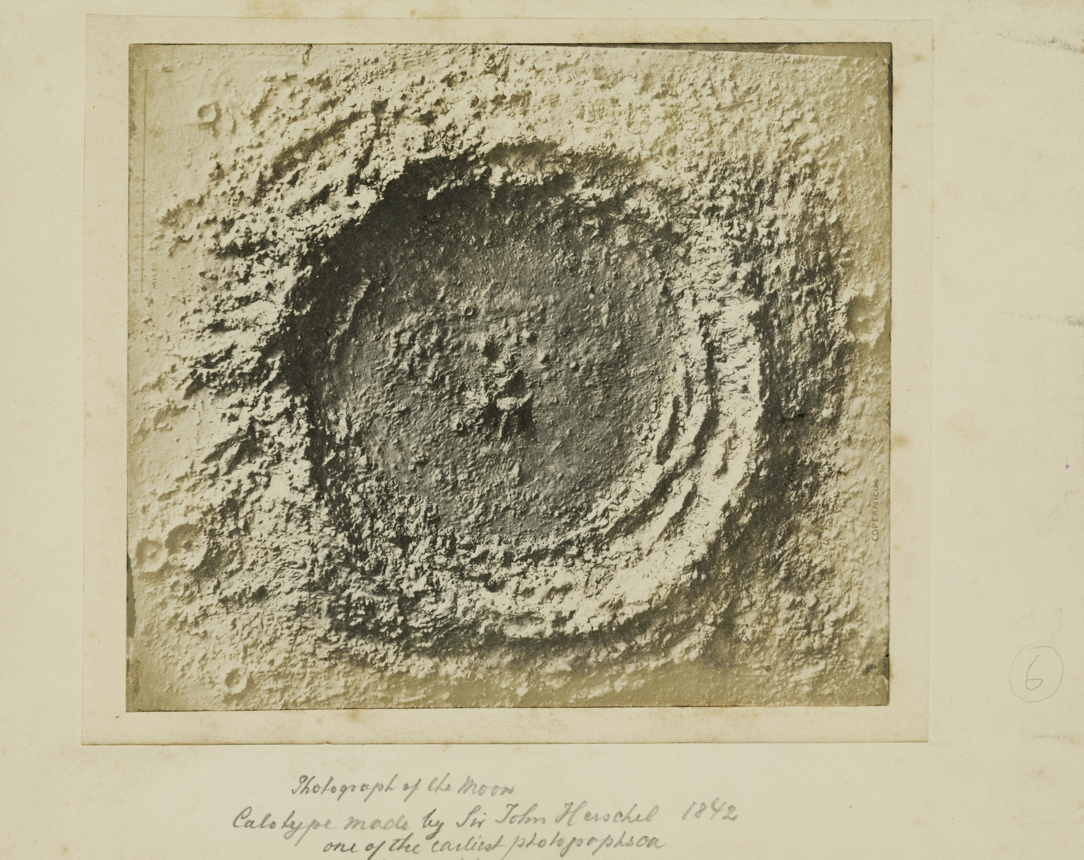 Inscription: "Photograph of the MoonCalotype made by Sir John Herschel - 1842one of the earliest photographs on [that subject]"